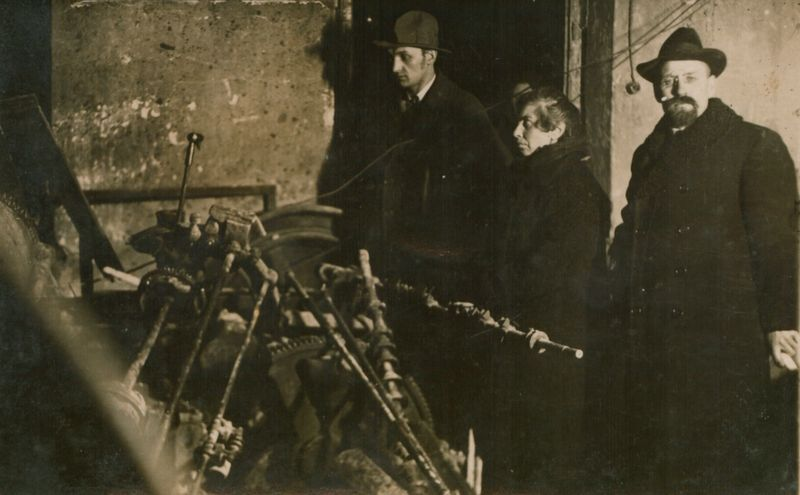 Varpas printing press after an explosion in 1927. From left: Justas Paleckis, Felicija Bortkevičienė, J. Jasiūnas.